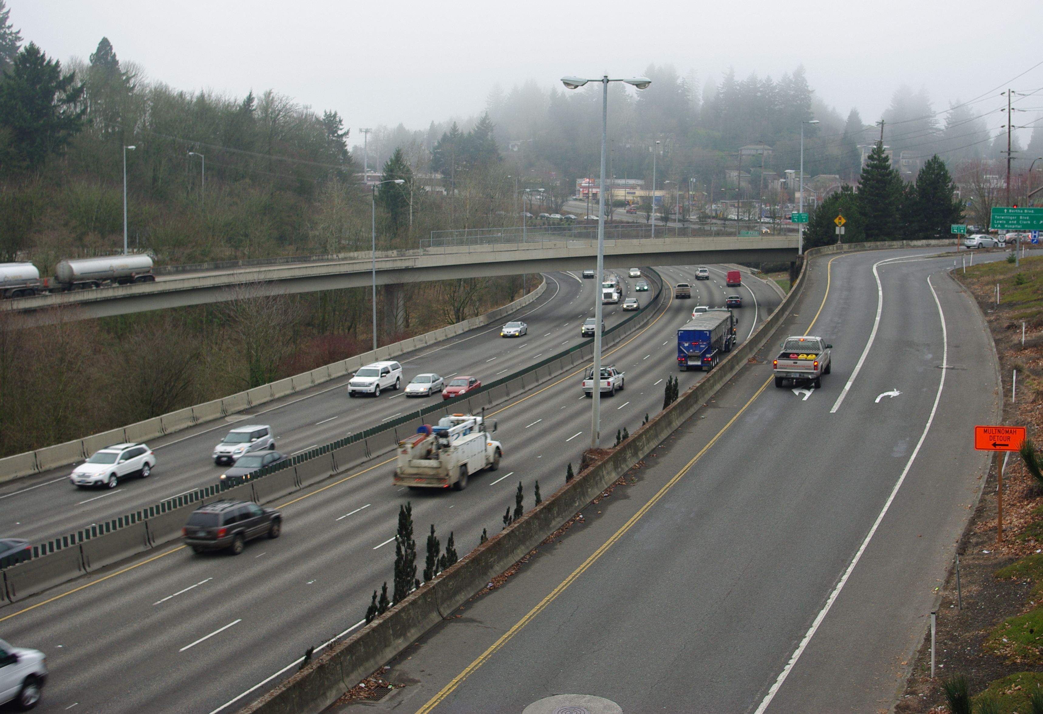 Terwilliger curves from Terwilliger Boulevard looking south in SW Portland, Oregon.